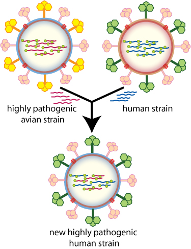 Overview of how different influenza strains can recombine to form completely new strains with characteristics of both. This process is called genetic shift, and is distinct from genetic drift, which is the process of accumulating point mutations. Made with Adobe Illustrator on OS X.